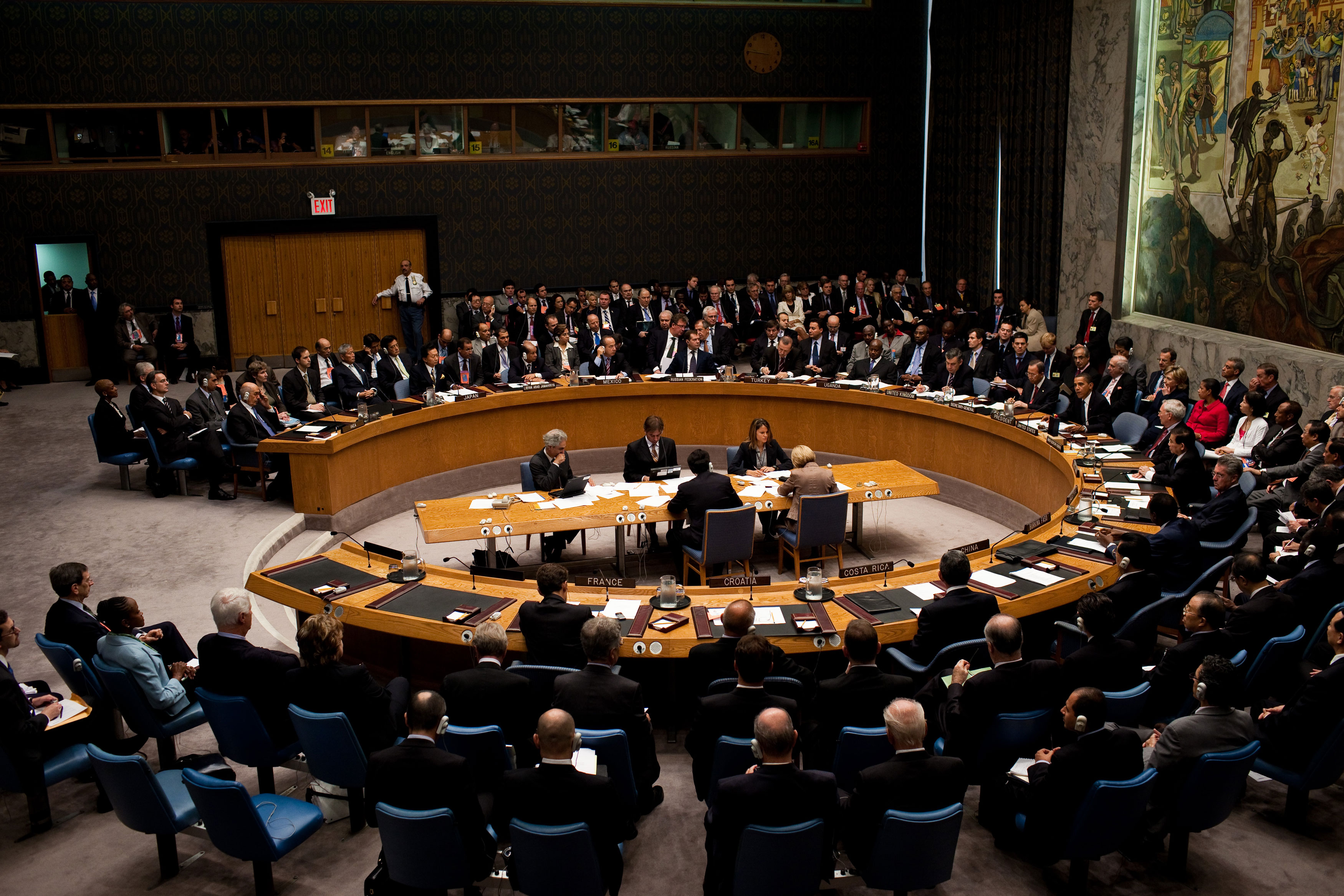 United States President Barack Obama chairs a United Nations Security Council meeting at U.N. Headquarters in New York, N.Y., Sept. 24, 2009.